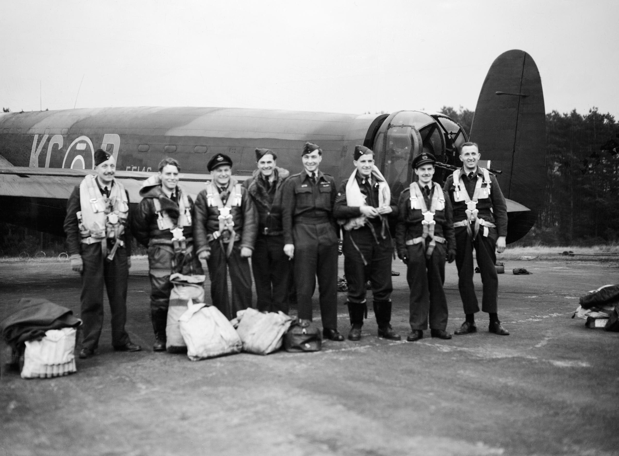 Royal Air Force Bomber Command, 1942-1945. Wing Commander J B Tait, Commanding Officer of No. 617 Squadron RAF (fifth from left), standing with his crew by the tail of their Avro Lancaster B Mark I (Special), EE146 'KC-D', at Woodhall Spa, Lincolnshire, on returning from Lossiemouth, the day after the successful raid on the German battleship TIRPITZ in Tromso Fjord, Norway, (Operation CATECHISM).